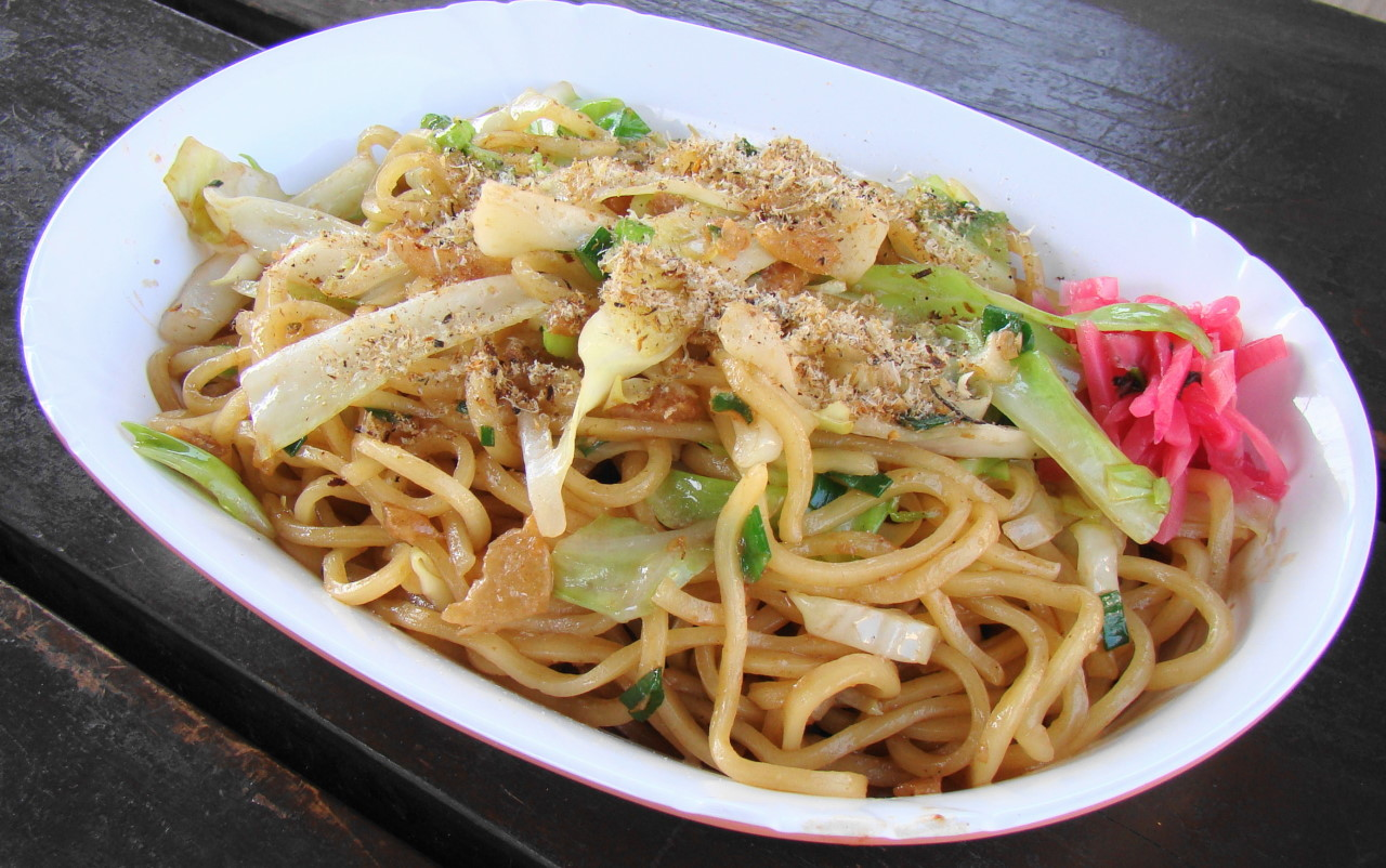 Yakisoba in Fujinomiya city Shizuoka Japan